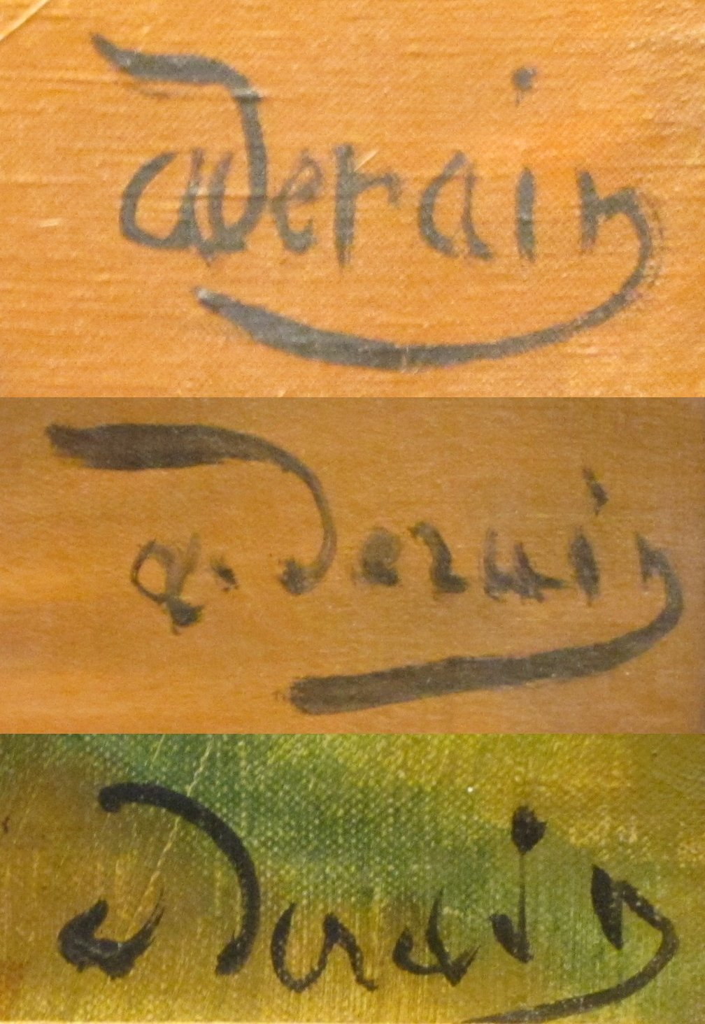 Signatures of André Derain